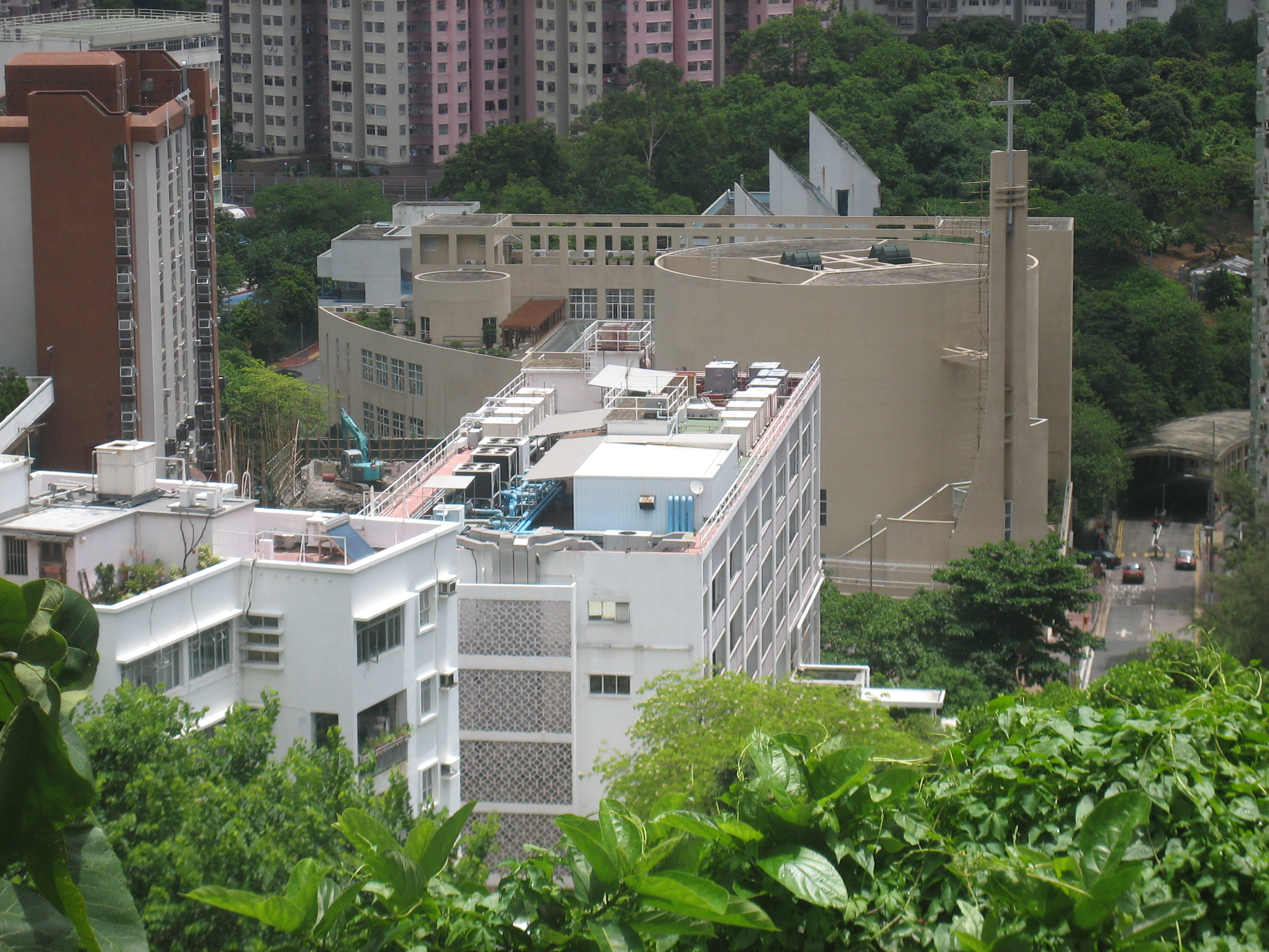 Church of the Annunciation at the back of Tsuen Wan Adventist Hospital